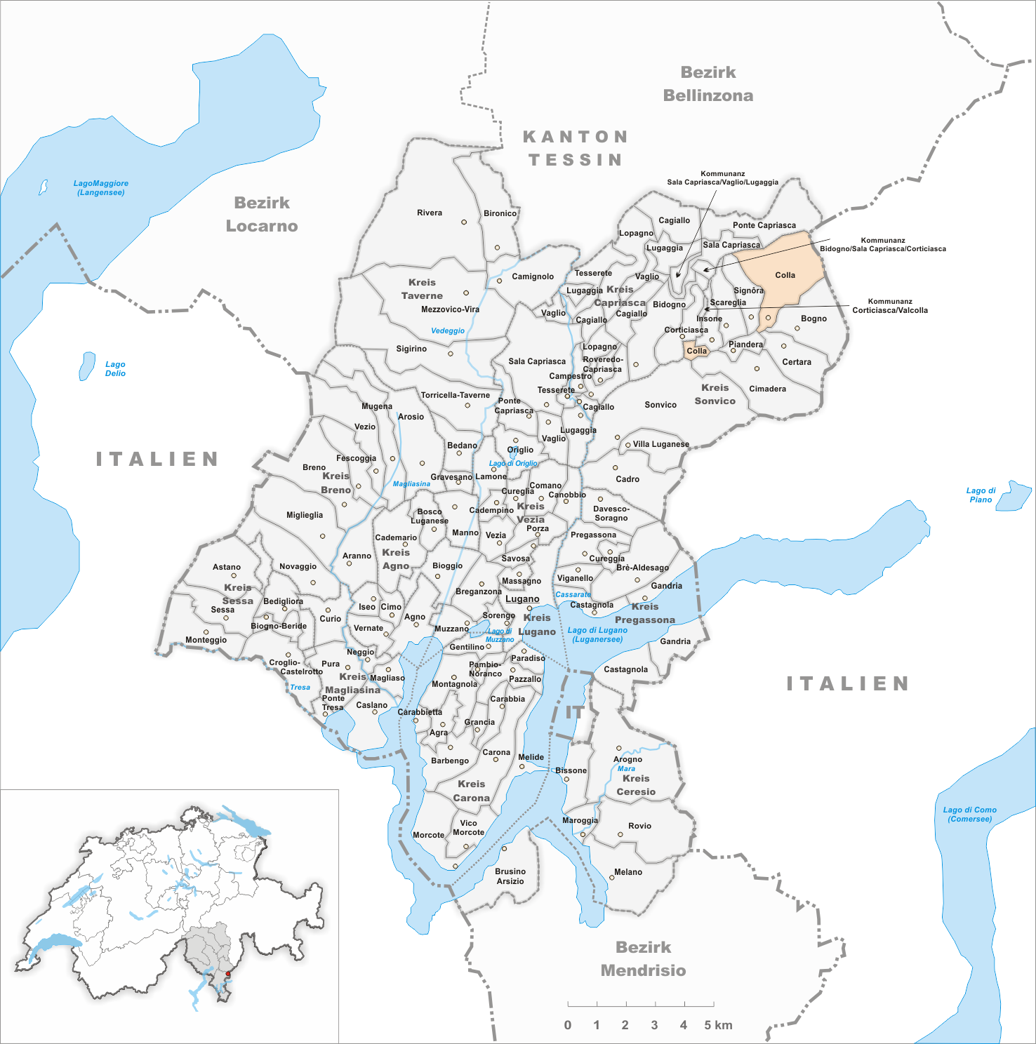 Municipality Colla Artist: Tschubby